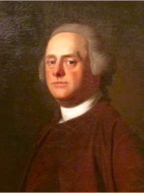 Judge Joseph Gerrish by Copley, Halifax, Nova Scotia